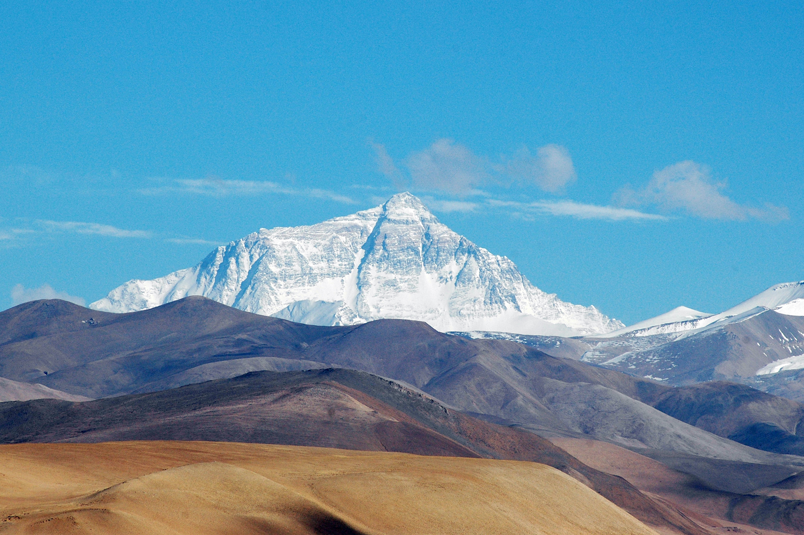 Mt. Everest, seen from Tingri, a small village on the Tibetan plateau at around 4050m above sea level.